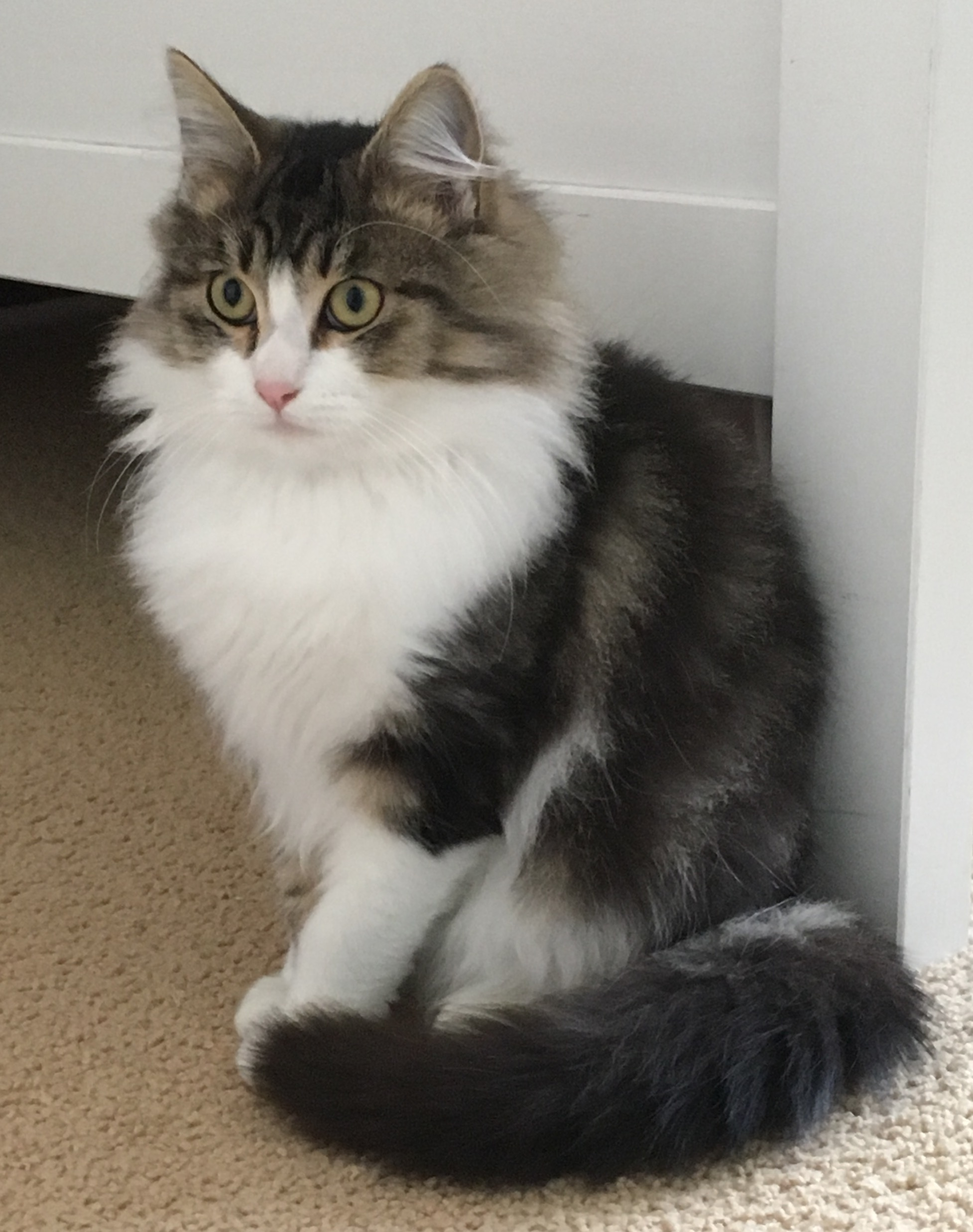 Indoor domestic tabby/white cat with medium fur and distinct M pattern on forehead